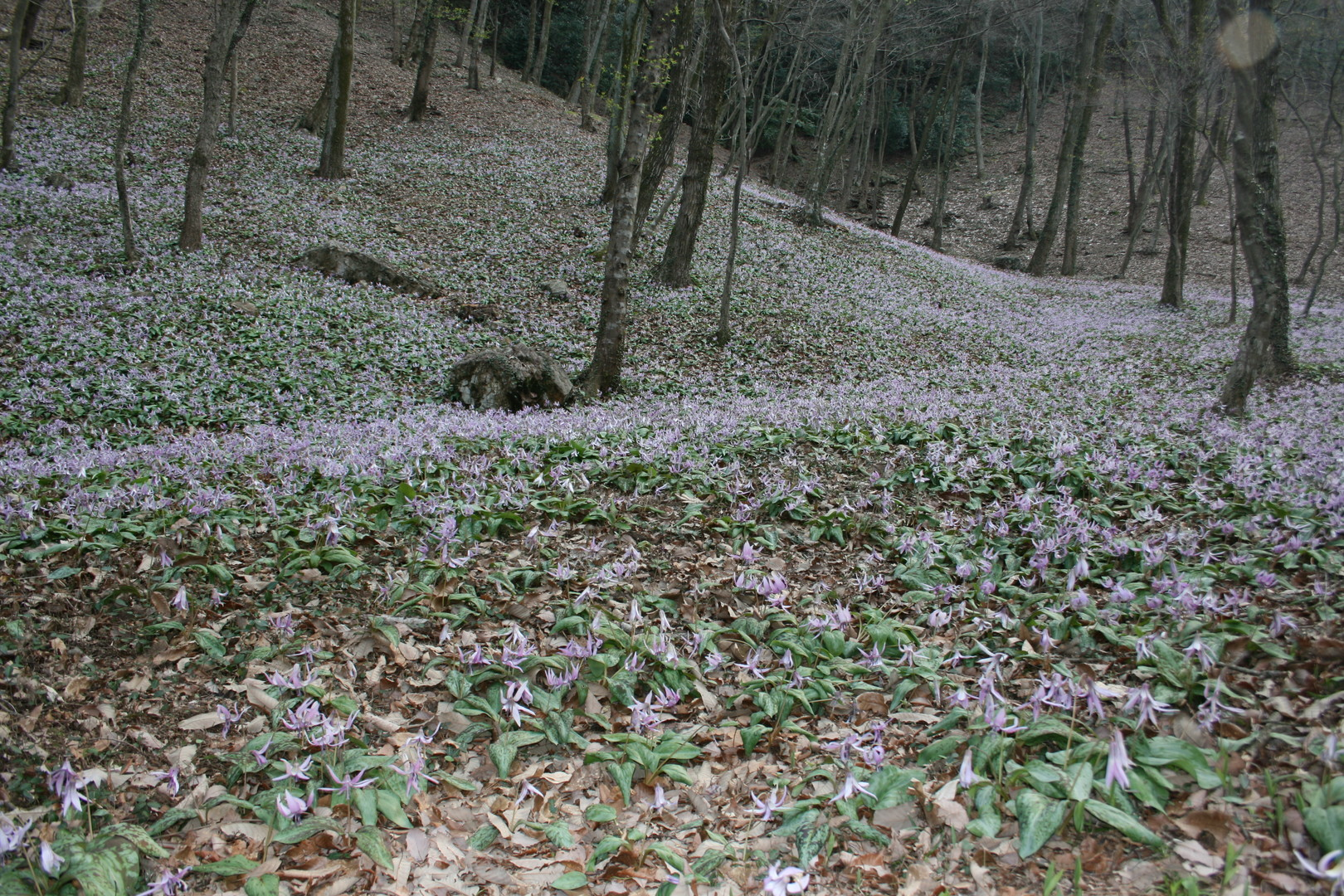 Erythronium japonicum (Erythronium japonicum, Katakuri) in Mount Hatobuki